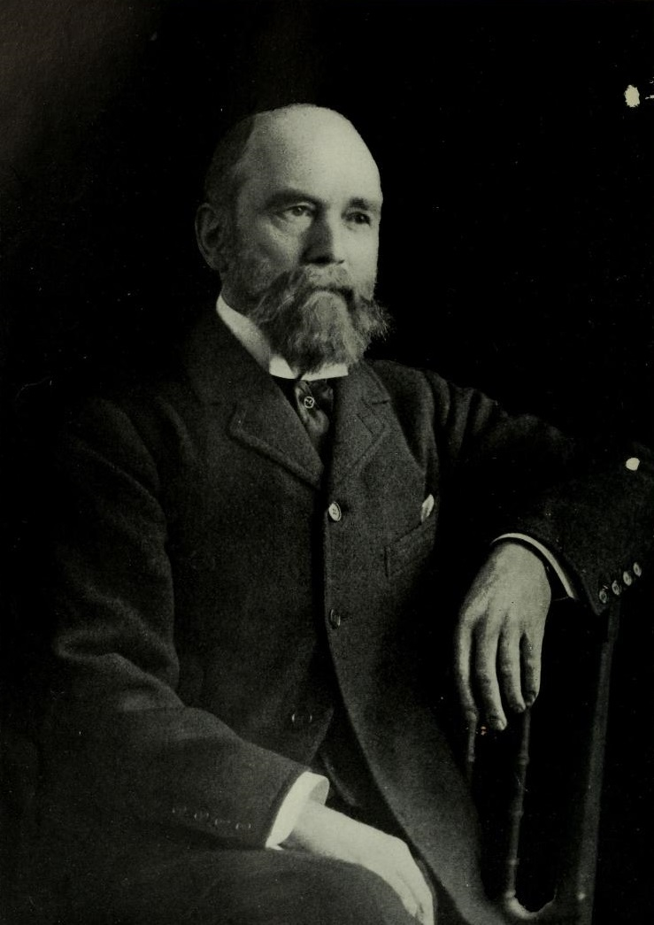 Portrait of James Robert Keene